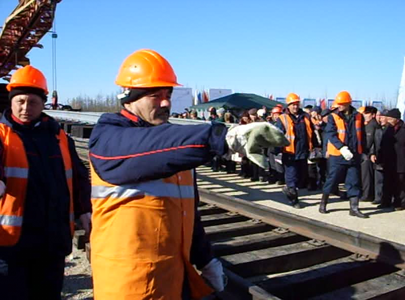 Celebration of the arrival of the railway in central Yakutia